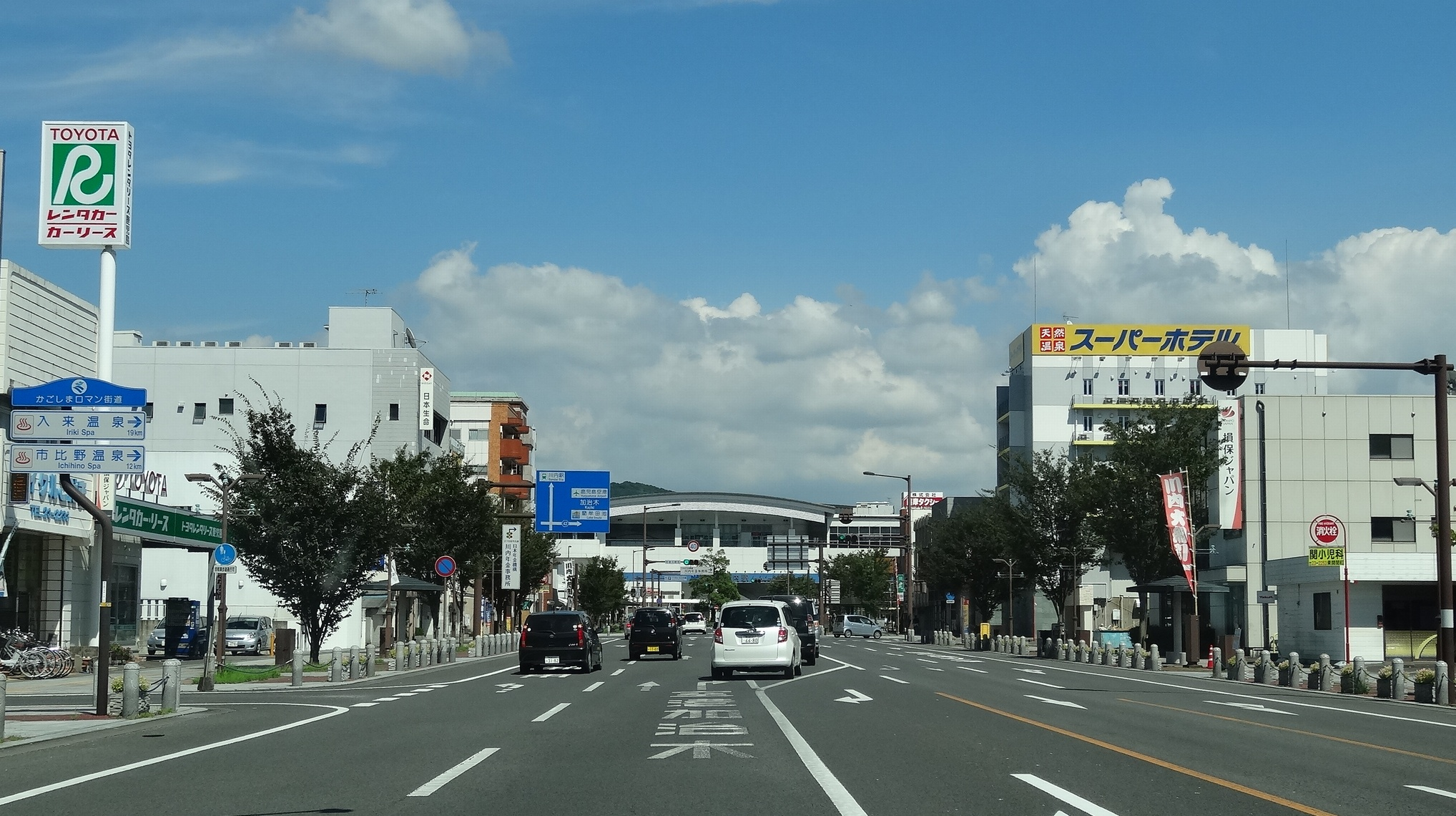 Kagoshima Prefectural Road No.42 Sendai-Kajiki Line (Around the "Sendai Station", Satsumasendai City, Kagoshima, Japan)